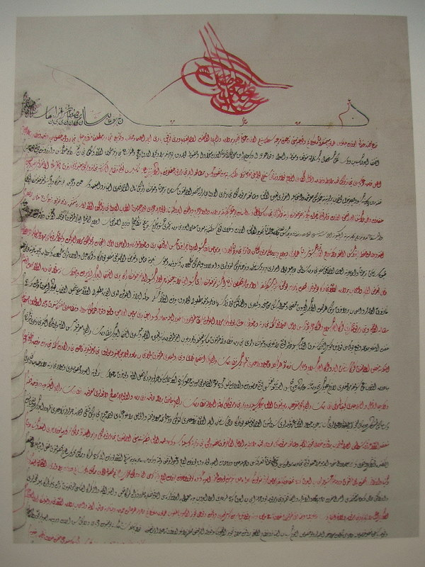 Edict of the Ottoman Sultan granting Angele, the son of Ohrid merchant Stefan Robev privileges for trade with Europe, Persia and India.